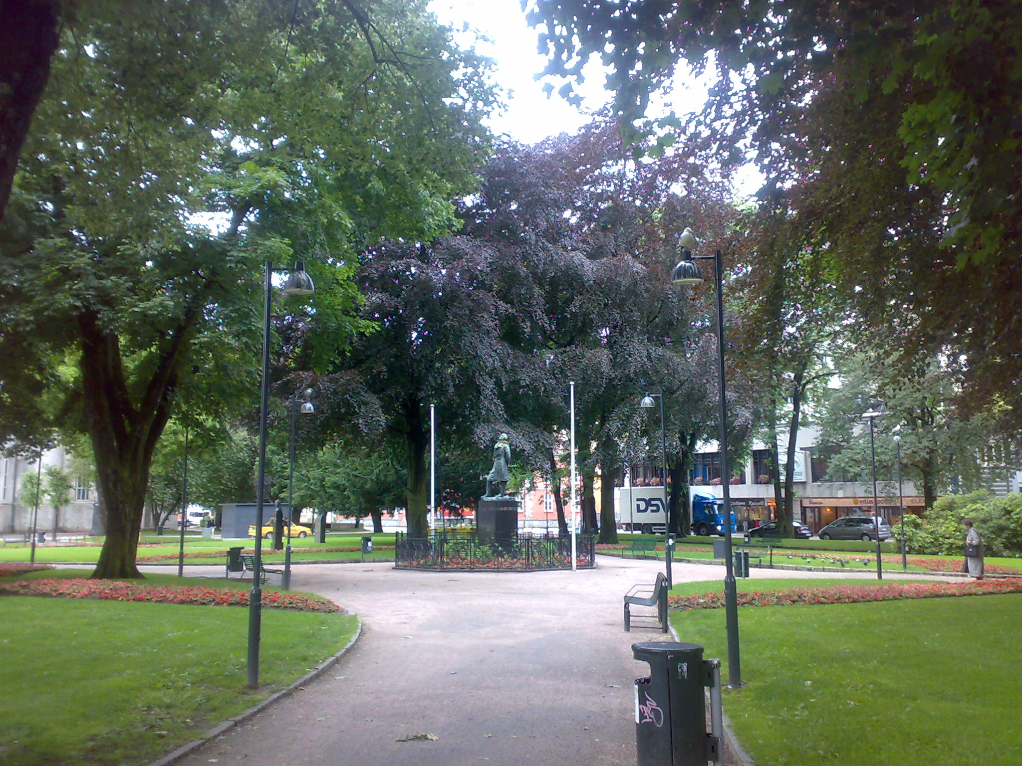 Wergeland Park, Kristiansand, Norway